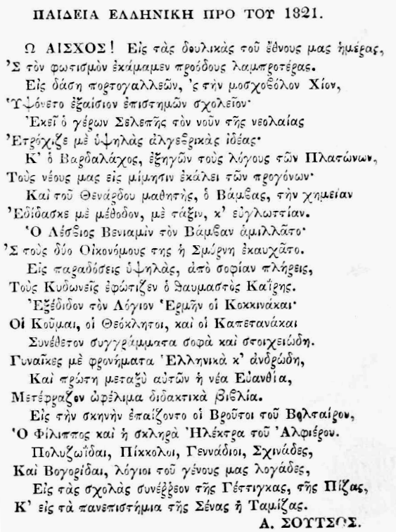 A poem by Alexandros Soutsos at the periodical Αποθήκη των Ωφελίμων Γνώσεων (Apothiki ton Ofelimon Gnoseon) (1837, July, p. 105).